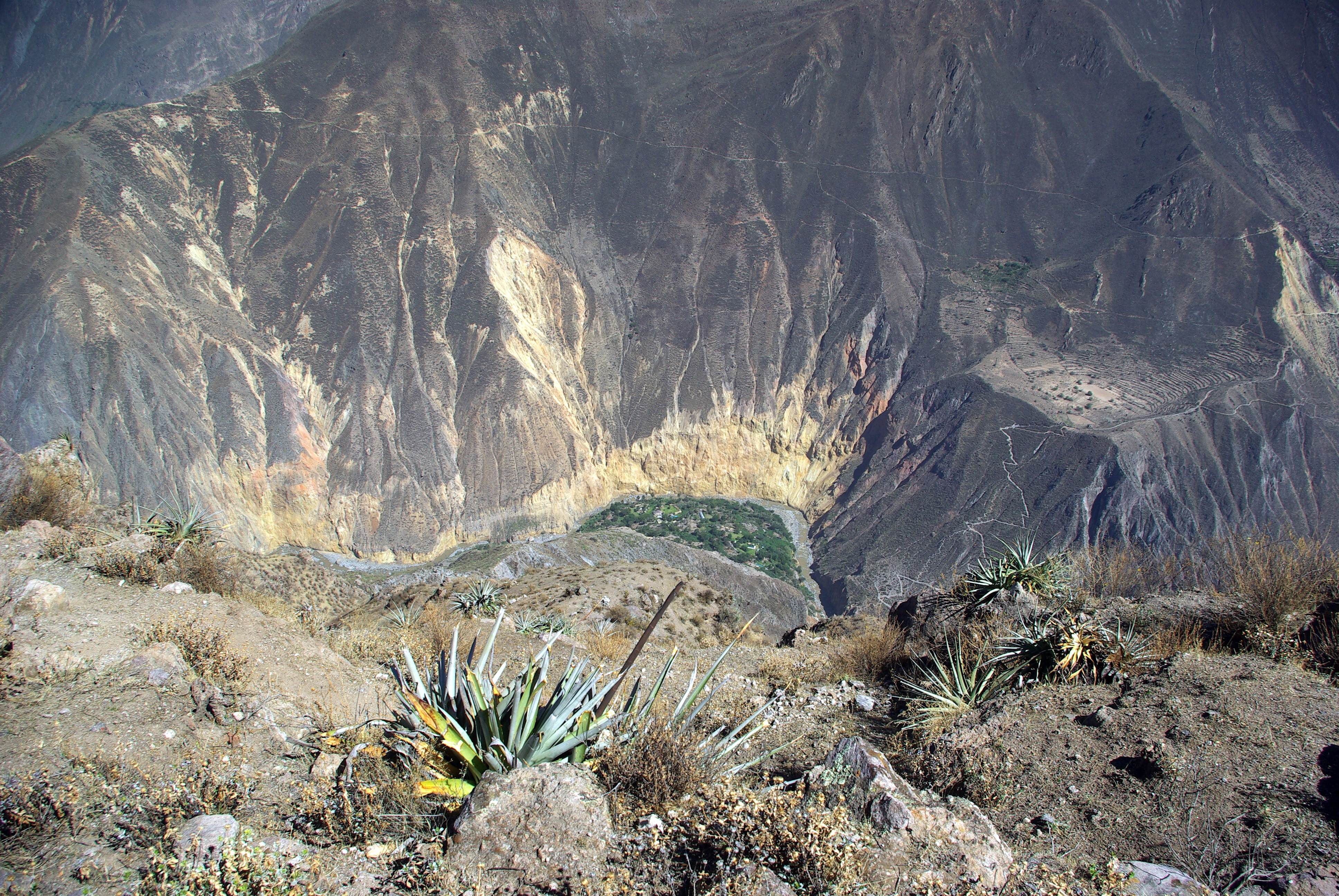 Looking into the Colca Canyon from near Cabanaconde. The green area at the bottom is the "Oasis" with several tourist resorts.